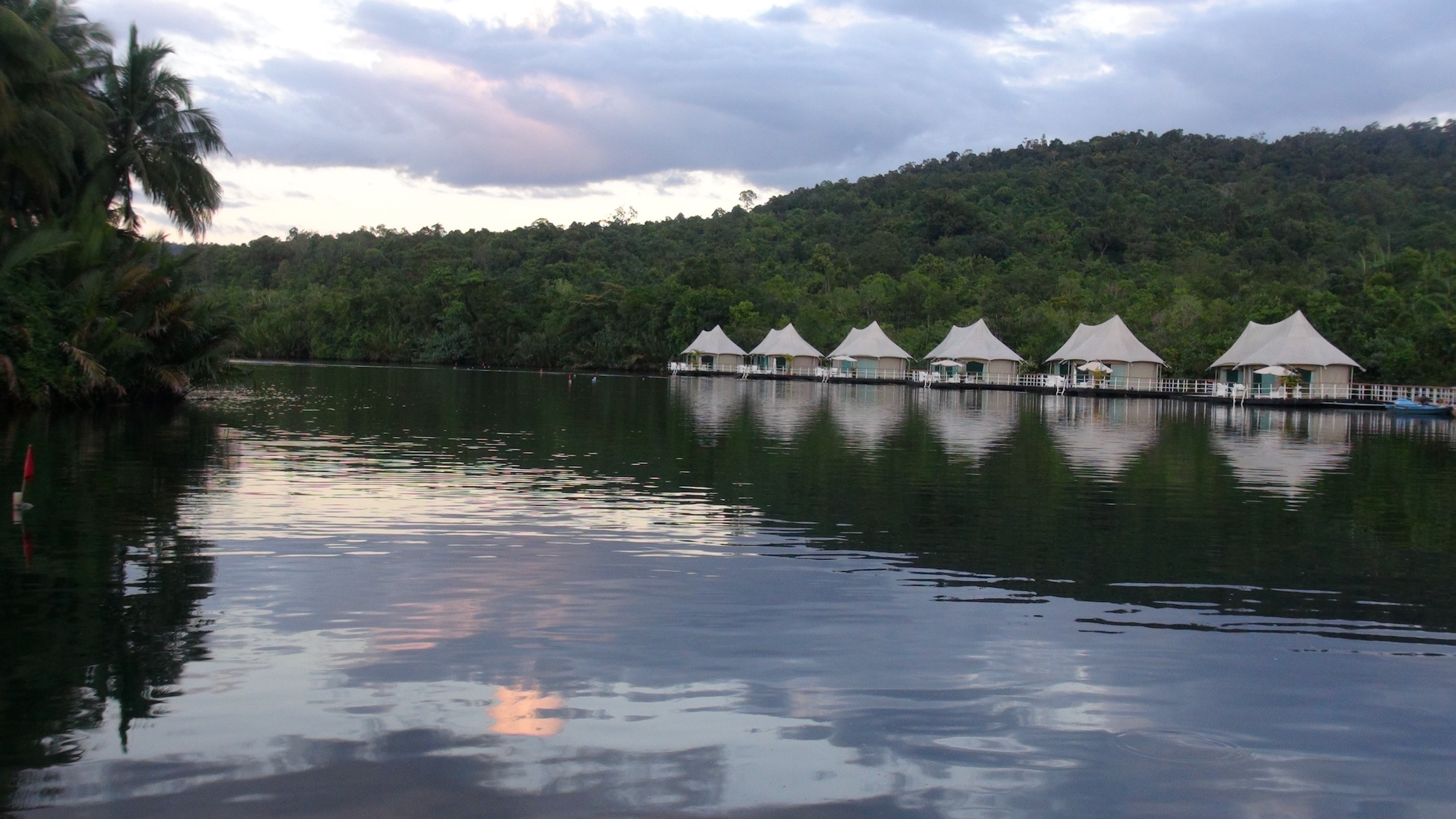 A floating hotel on the Tatai River, Koh Kong Province.